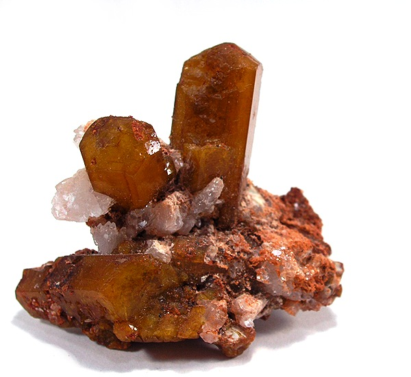 Calcite, Sturmanite Locality: Kuruman, South Africa Size: miniature, 4 x 3.4 x 2 cm Sturmanite with Calcite Simply said, this is a competition-level, elegant miniature of sturmanite, rare on matrix. Two prismatic, lustrous and translucent, greenish-brown sturmanite crystals, to 2.25 cm in length, diverge and form a "v". Aesthetic and superb!